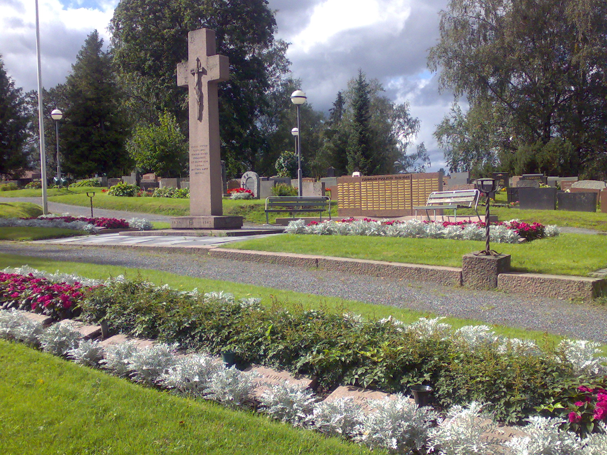 Military cemetary at Lempäälä Church in Lempäälä, Finland